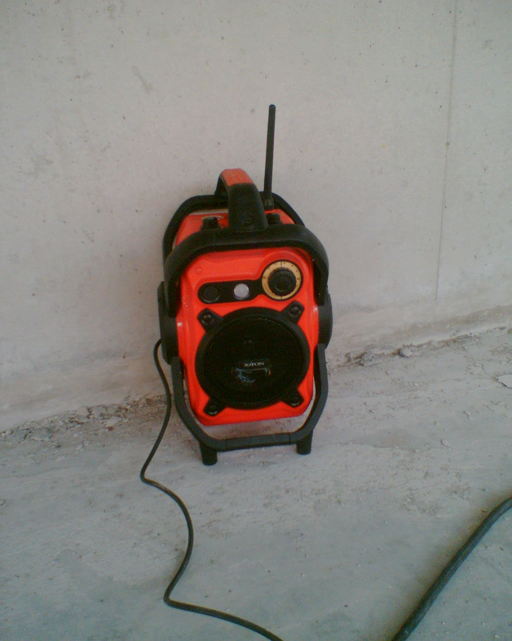 dutch: bouwradio, a radio receiver and player that is used on construction sites (it has additional protection)